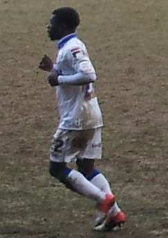 Abdulai Bell-Baggie playing for Tranmere Rovers on 29 March 2013.